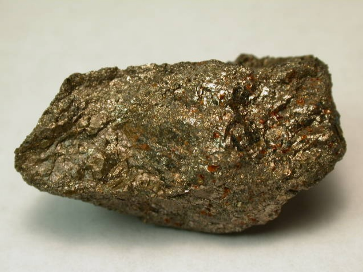 Pentlandite Locality: Kambalda Nickel deposit, Kambalda, Coolgardie Shire, Western Australia, Australia Original description: A 2.9 by 1.7 cms mass. JSS specimen and photograph.